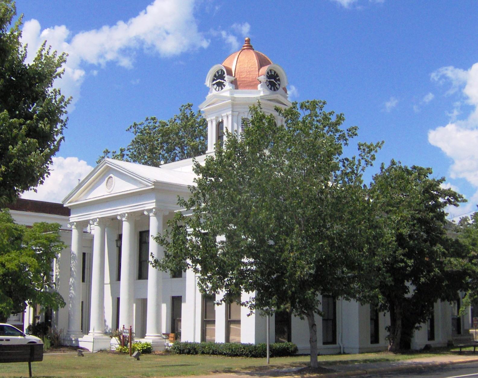 The Swain County Courthouse in Bryson City, North Carolina, in the southeastern United States. The courthouse, located at the corner of Main Street and Everett Street, was completed in 1908. The courthouse was added to the National Register of Historic Places in 1979.